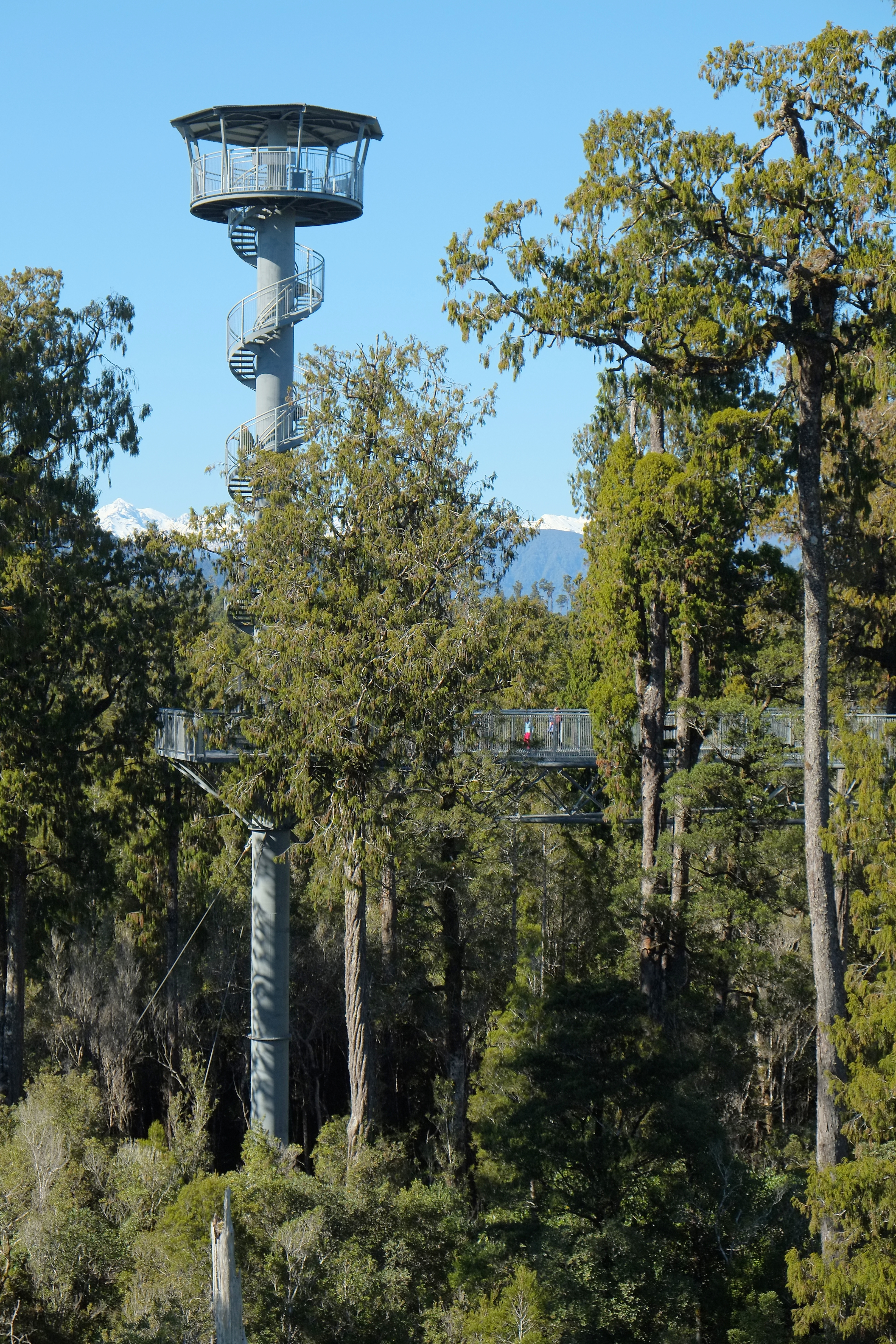 Hokitika Tower at Treetop Walkway amongst mature rimu trees of surrounding native forest